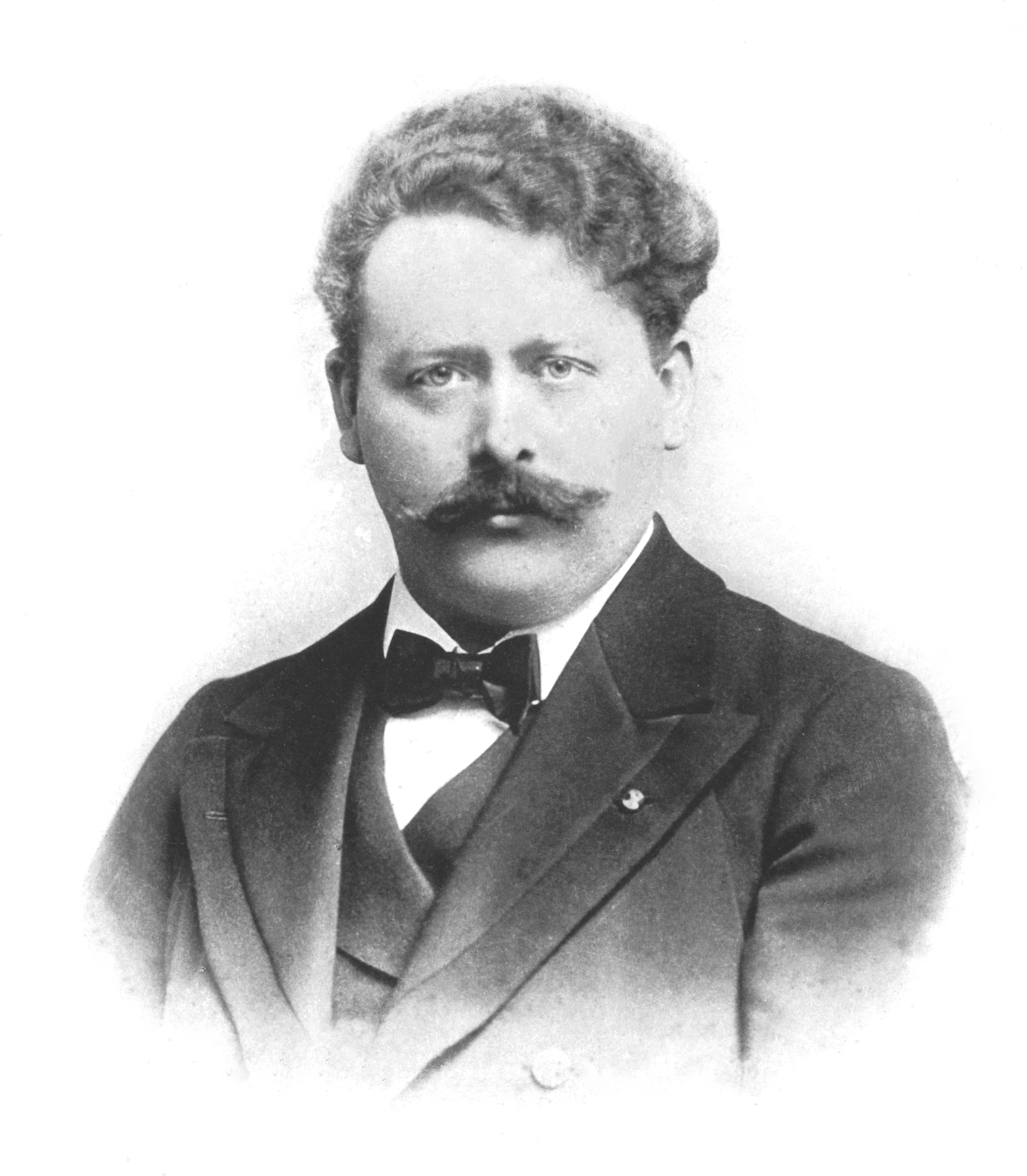 The image of Dutch composer, Willem Mengelberg (1871–1951).